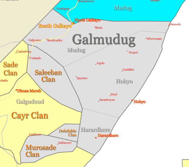 Map of Galmudug State of Somalia (Galmudug is a part of Galkayo town call Baraxleey.}